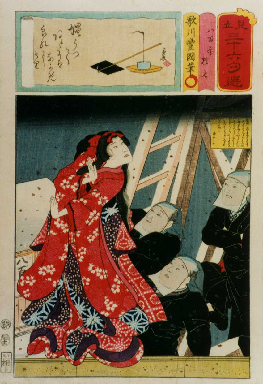 Woodblock print by Utagawa Kunisada I, here signing with 'Utagawa Toyokuni ga'; series ’The 36 outstanding poems'; the actors Ichikawa Kodanji IV, Bandō Muraemon I, Bandō Matatarō VI and one unknown as yaoya Oshichi and three unnamed puppet players in the play ’Shochikubai yuki no akebono', performed at the Ichimura theater; publisher: Sagamiya Tokichi